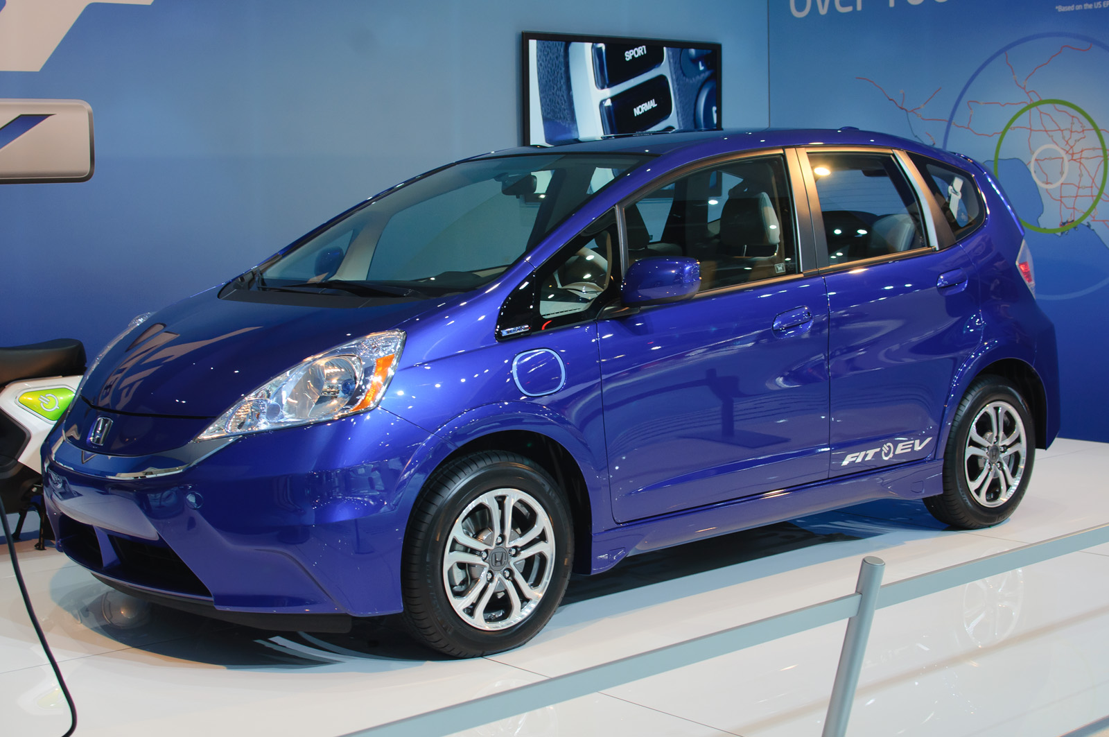 2012 Honda Fit EV at the 2011 LA Auto Show